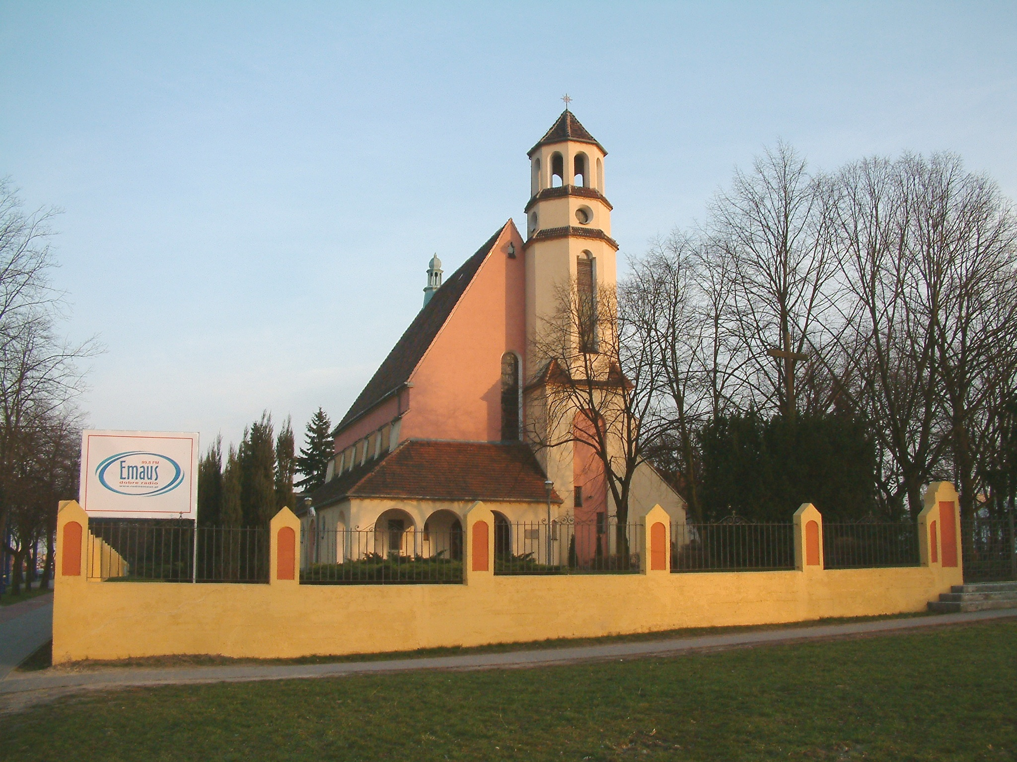 Church of St. Roch in Poznań